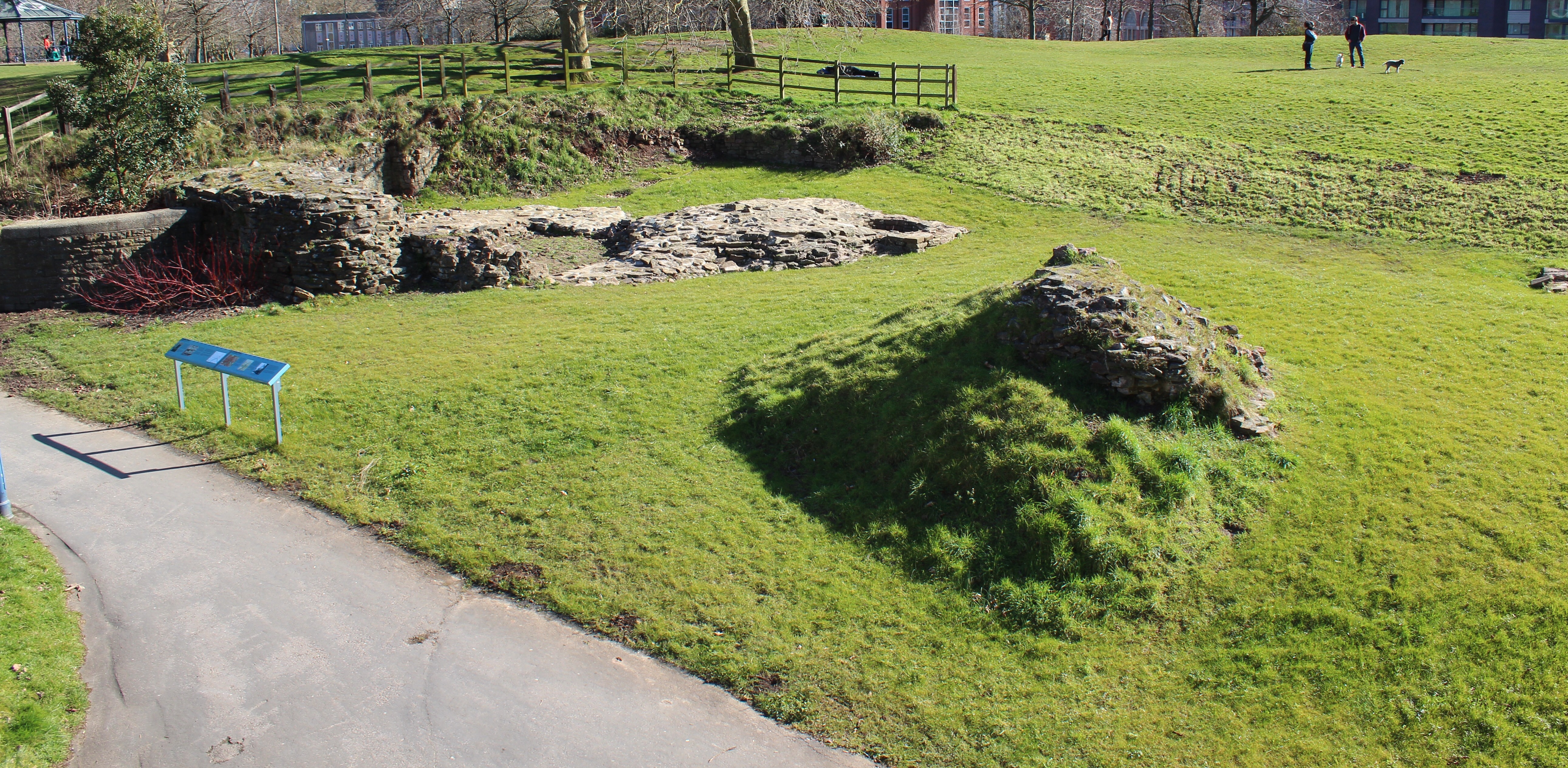 Remains of Bristol Castle in 2018. The area has been recently landscaped so that the remains are accessible to the public.